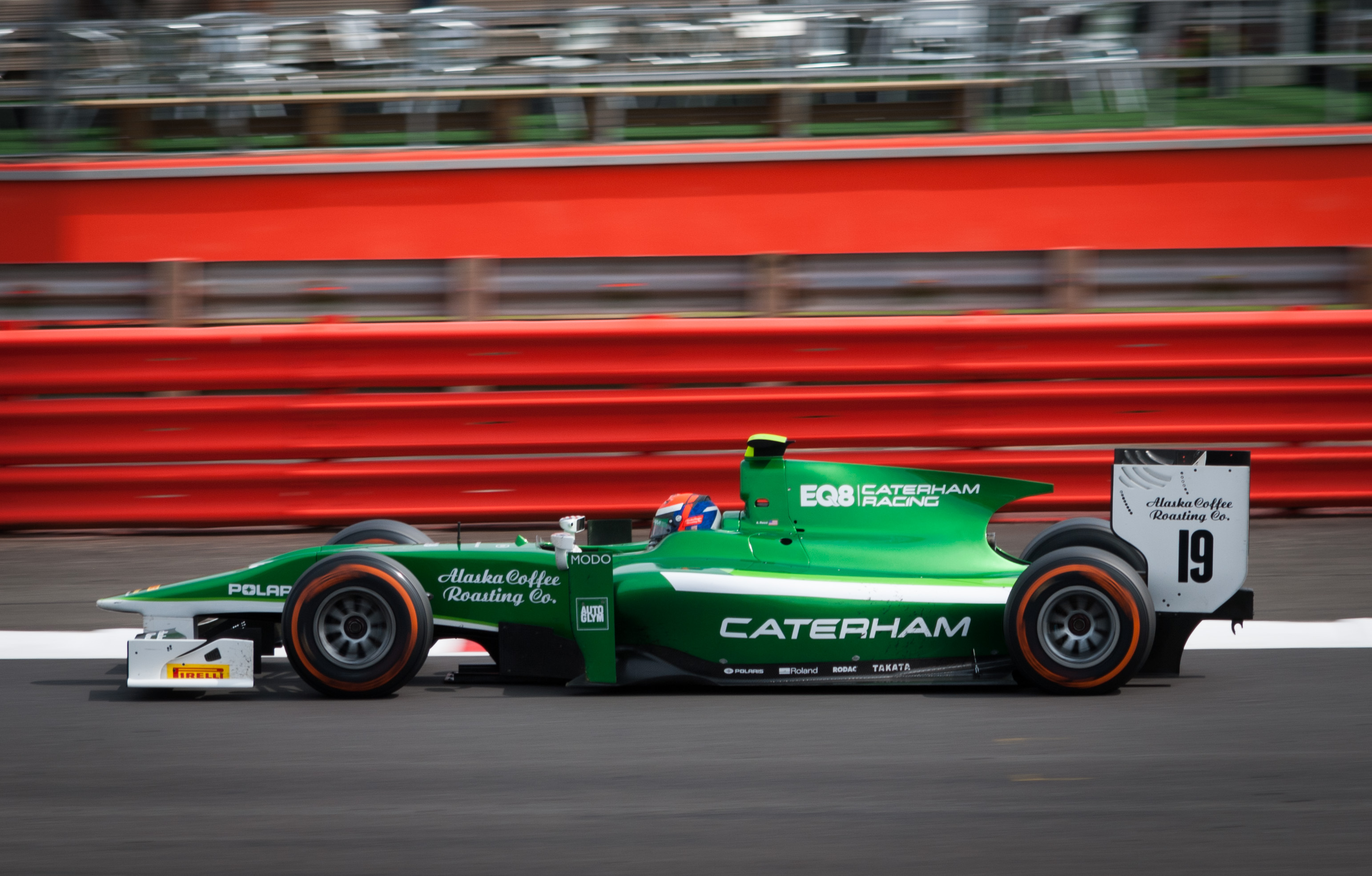 Alexander Rossi driving for Caterham Racing at Silverstone. Round 5 of the 2014 GP2 Series Championship.